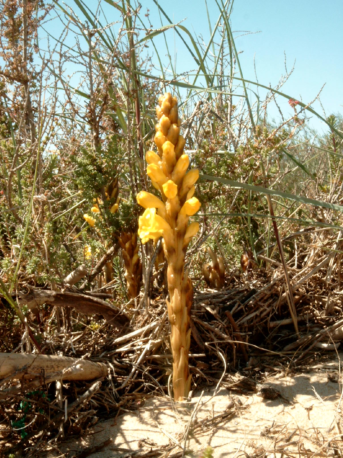 Name Cistanche phelypaea Familiy Orobanchaceae